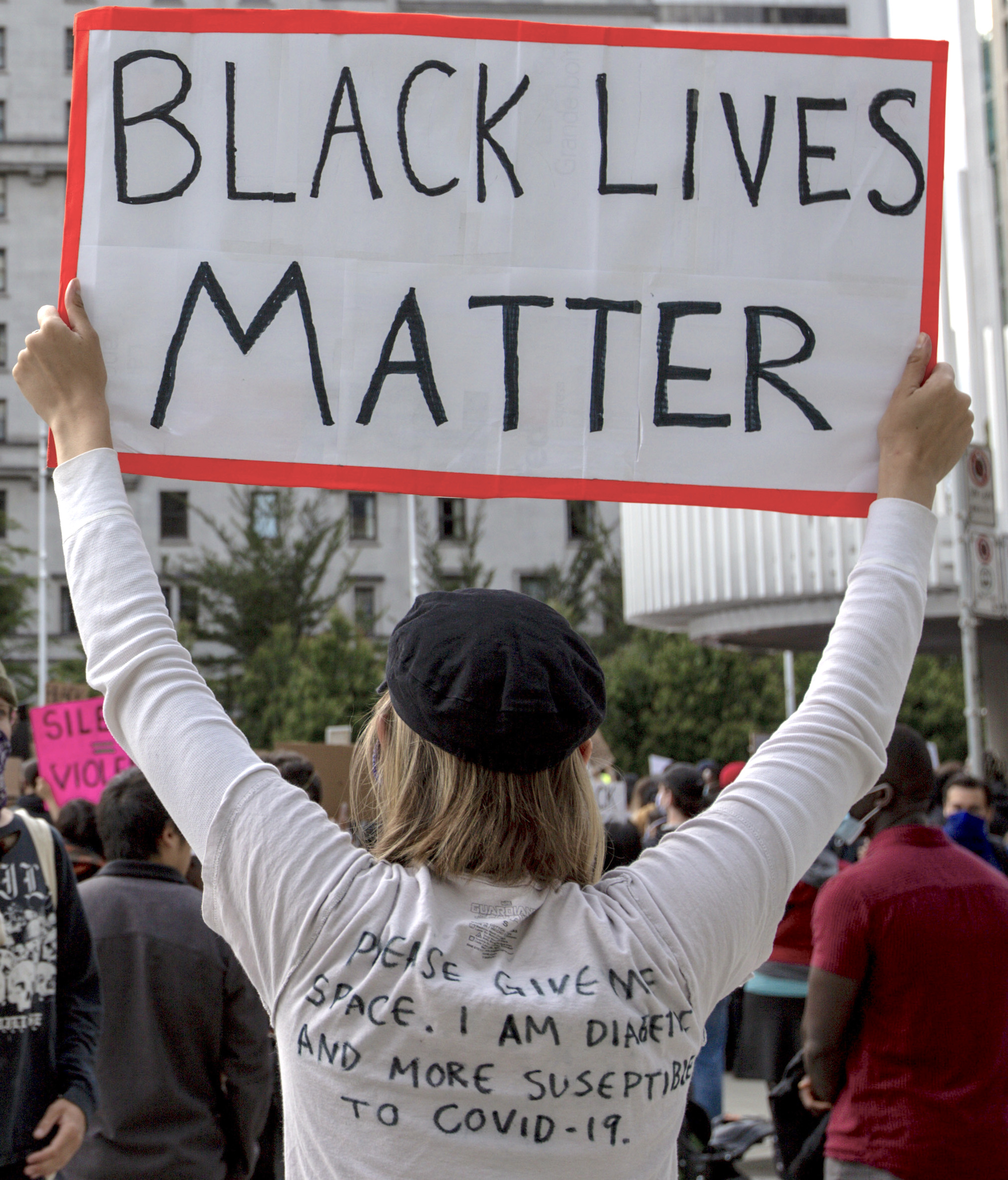 Black Lives Matter, Anti-racism rally at Vancouver Art Gallery